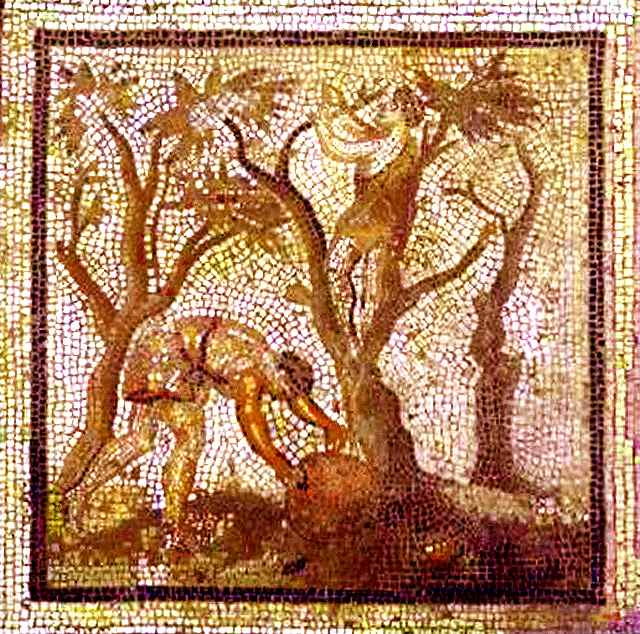 Roman mosaïc of Saint-Romain-en-Gal